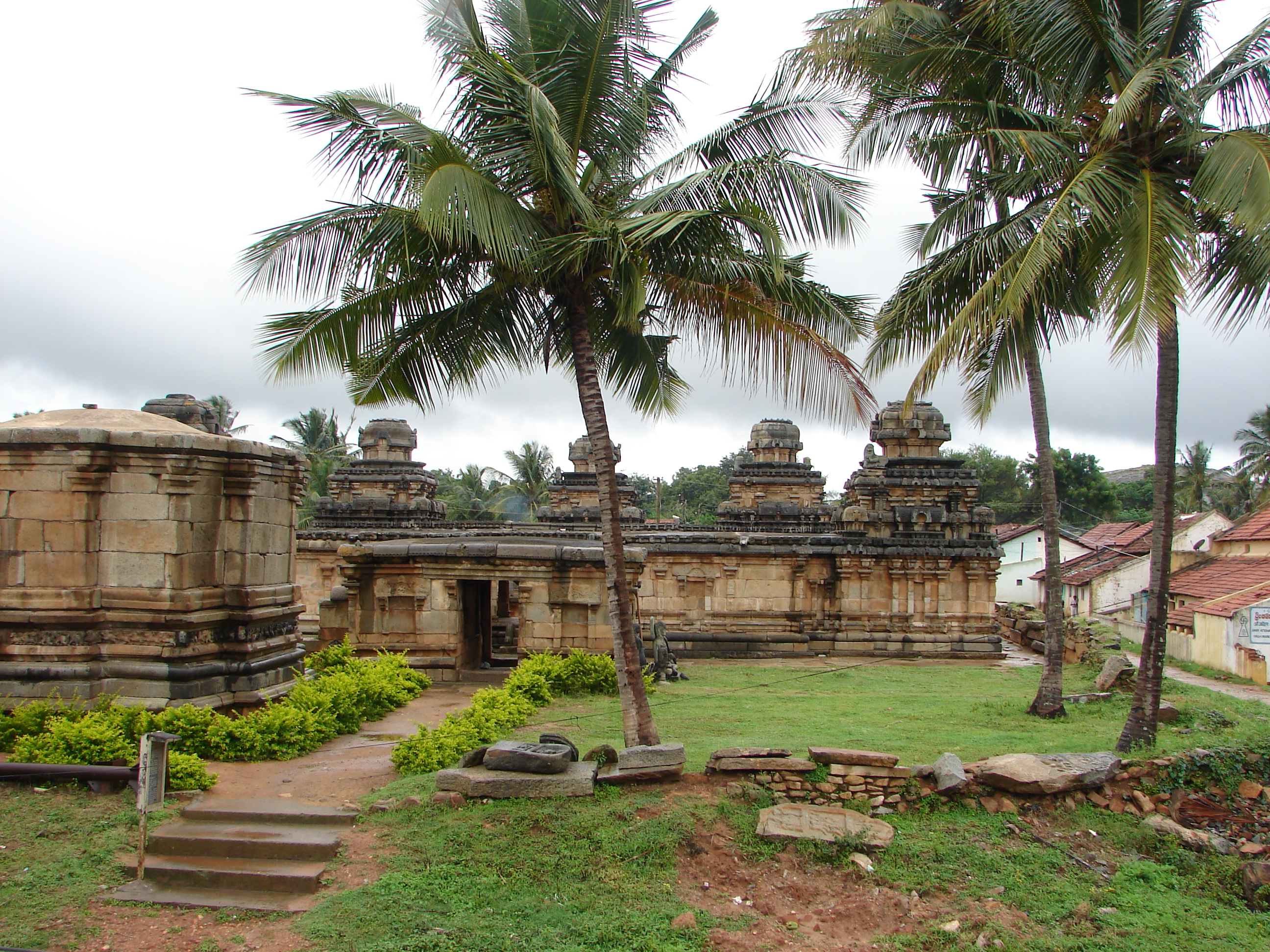 This photograph was taken by me at the Panchakuta Basadi at Kambadahalli, Mandya district, Karnataka state, India. Kambadahalli was important Jain religious center during the 9th-10th century. This monument was built around 900 A.D. during the reign of the Western Ganga dynasty and is considered a fine example of Dravidian architecture.